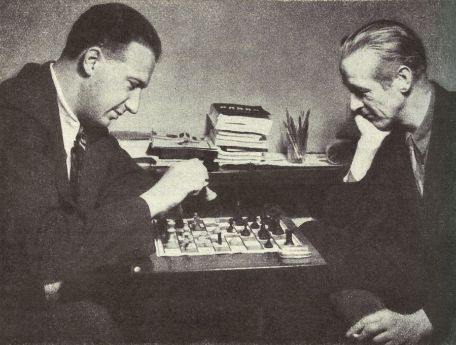 Authors Josef Kjellgren and Rudolf Värnlund playing chess.